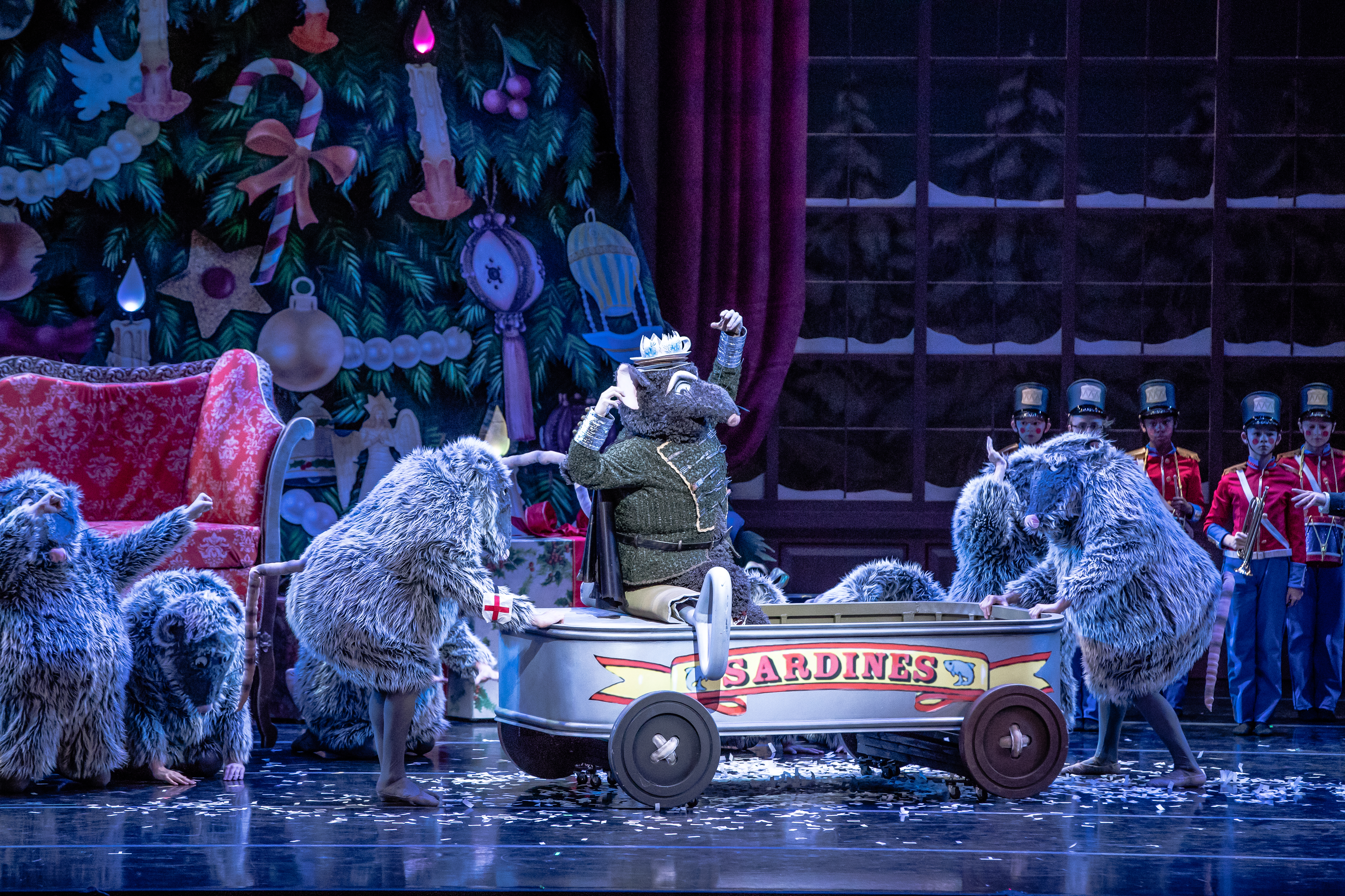 KCB Dancers and Dancer Christopher Costantini as the Mouse King. Photography by Brett Pruitt & East Market Studios.